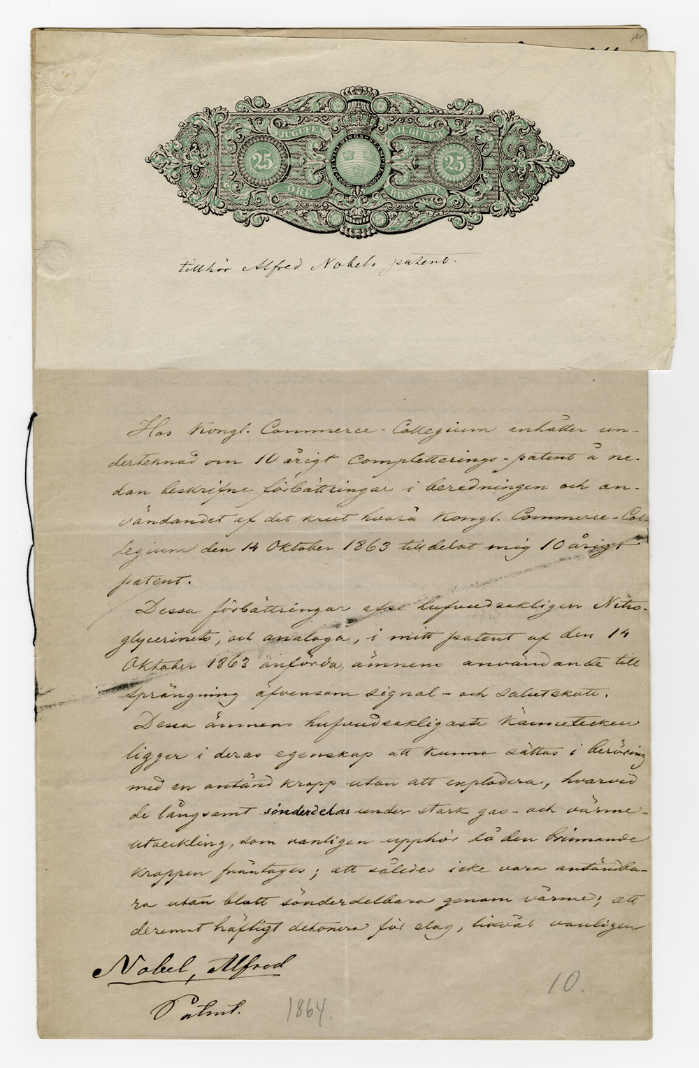 Alfred Nobel's application for patent, regarding his percussion cap and principles for initial ignition of nitroglycerine.